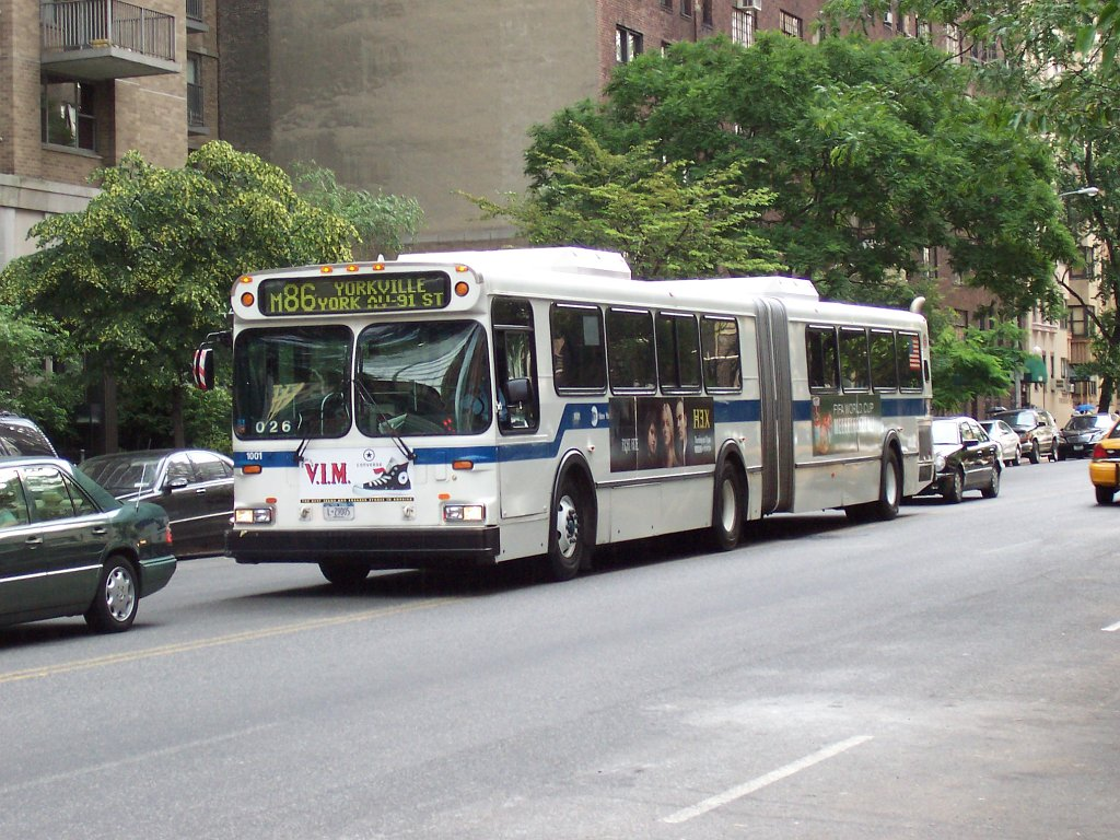 NYCTA New Flyer D60HF bus 1001 in Manhattan, New York, on the M86 line.